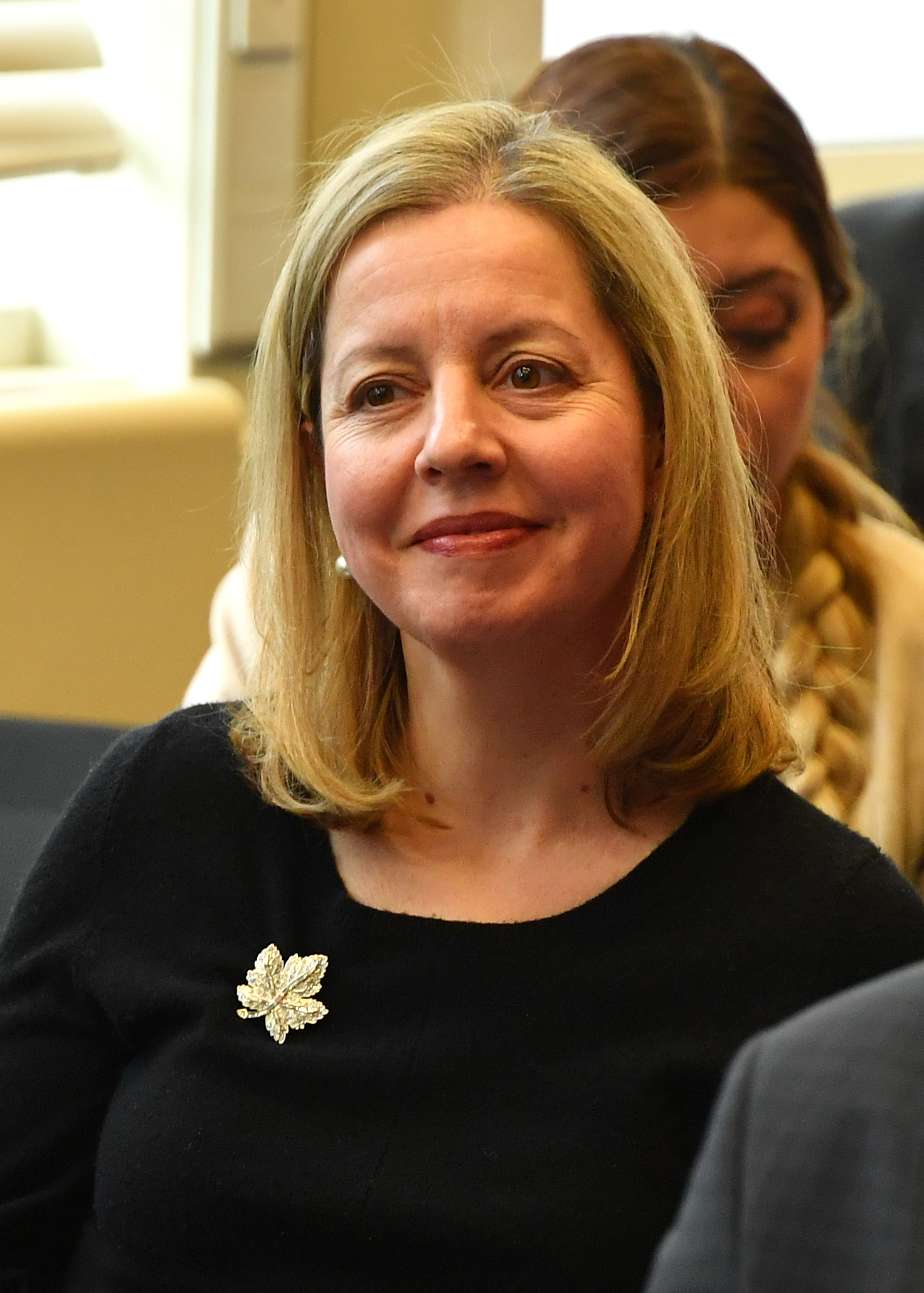 IAEA celebrates the 107th International Women's Day with this year's theme, 'Unconscious Bias in the Workplace, held in Vienna, Austria, 8 March 2018 - Photo Credit: Dean Calma / IAEA